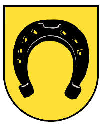 Old Coat of Arms of Leimersheim